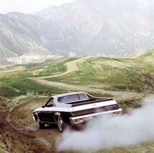 1974 Chevrolet El Camino